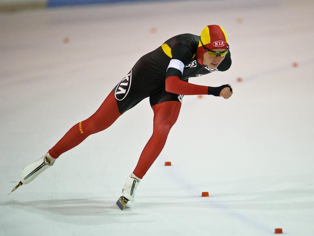 Maarten Swings (image without border)